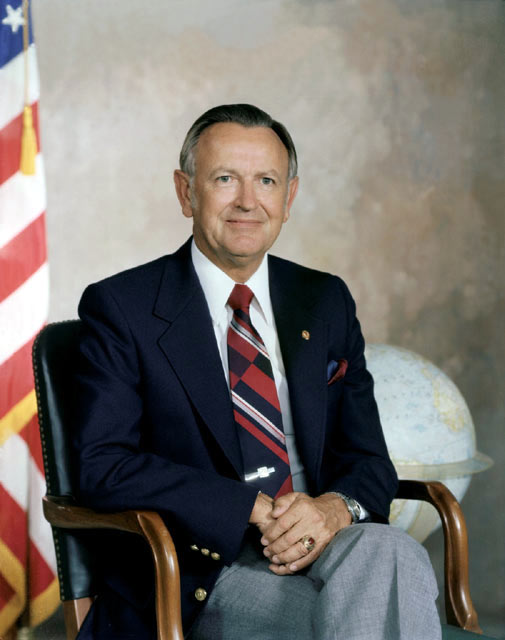 A portrait of Dr. Christopher C. Kraft Jr. taken in 1979. Dr. Kraft served as director of the Johnson Space Center from January 17, 1972 to August 7, 1982.